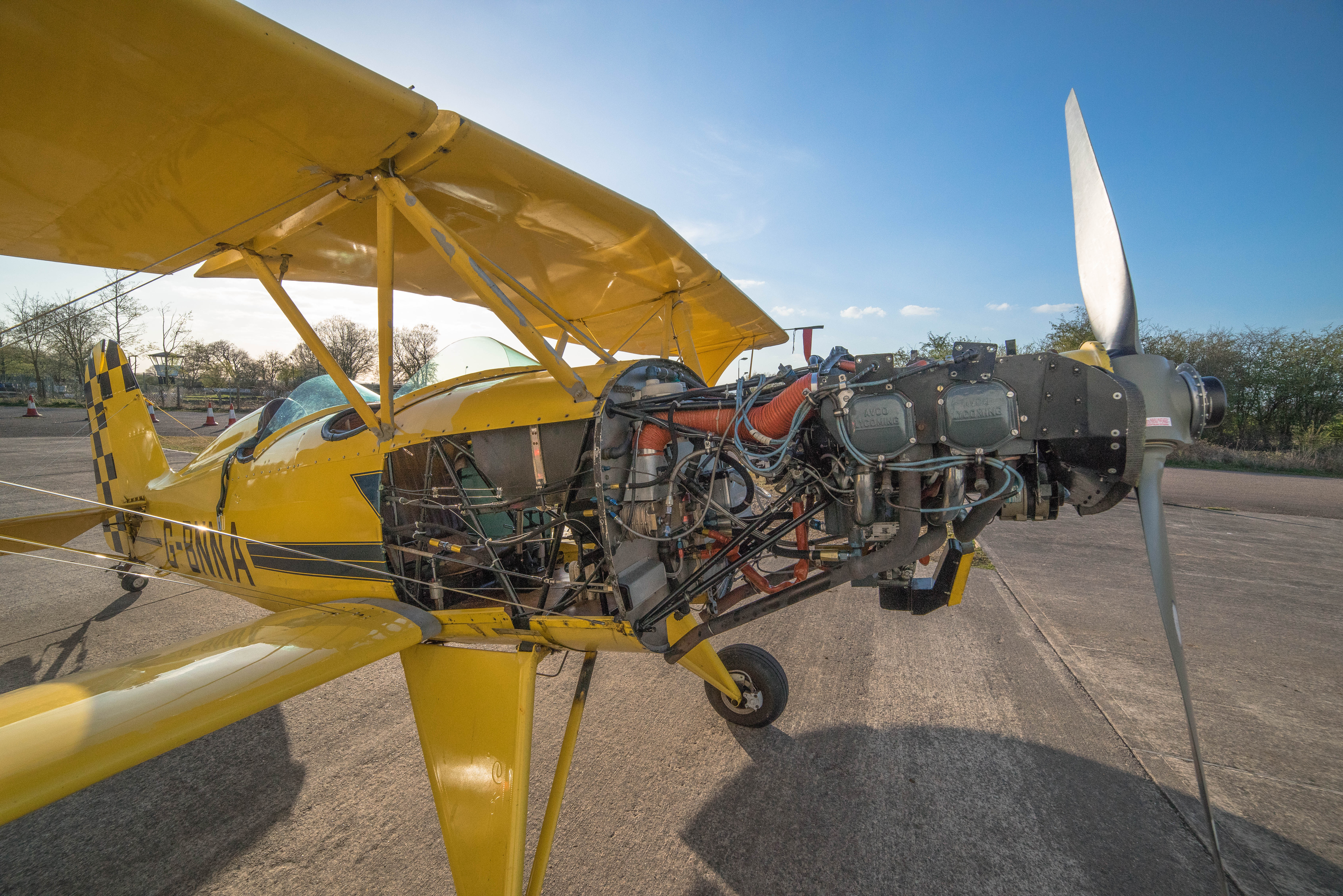 Stolp SA-300 Starduster Too with Lycoming engine revealed